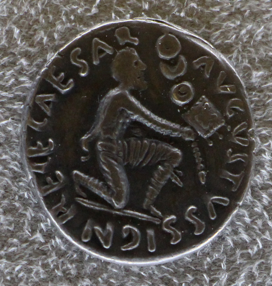 Coins in the Museo archeologico nazionale (Florence). Roman coin of Augustus (19 BCE) showing a Parthian soldier returning the Roman standards captured at the Battle of Carrhae (53 BCE). Augustus hailed the return of the standards as a political victory over Parthia.